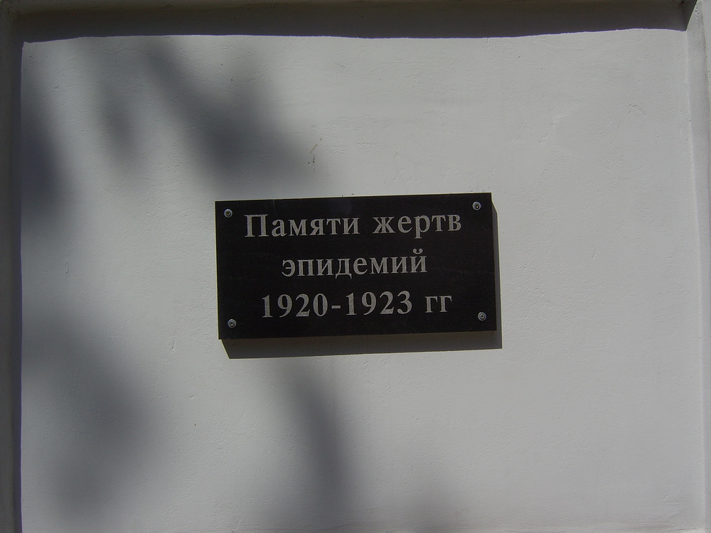 Obelisks to 183 workers stage repatriation in Baranavichy, 1923